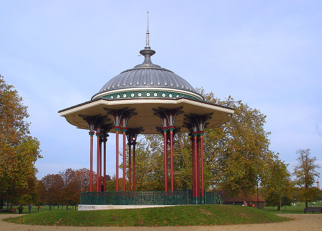 The Bandstand on Clapham Common